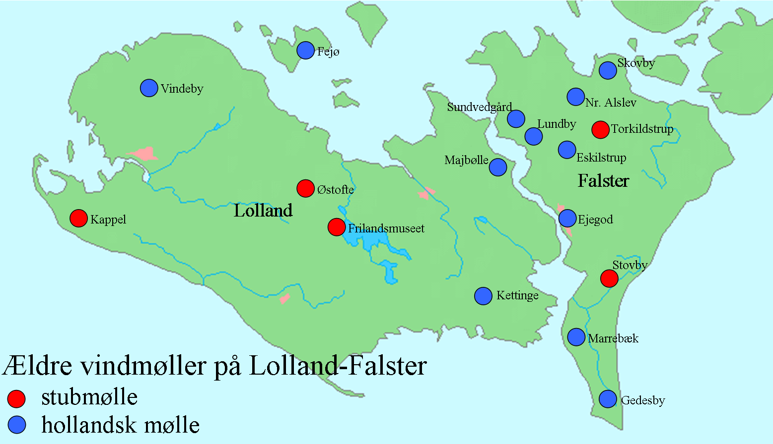 Map of old mills on Lolland and Falster, two danish isles.